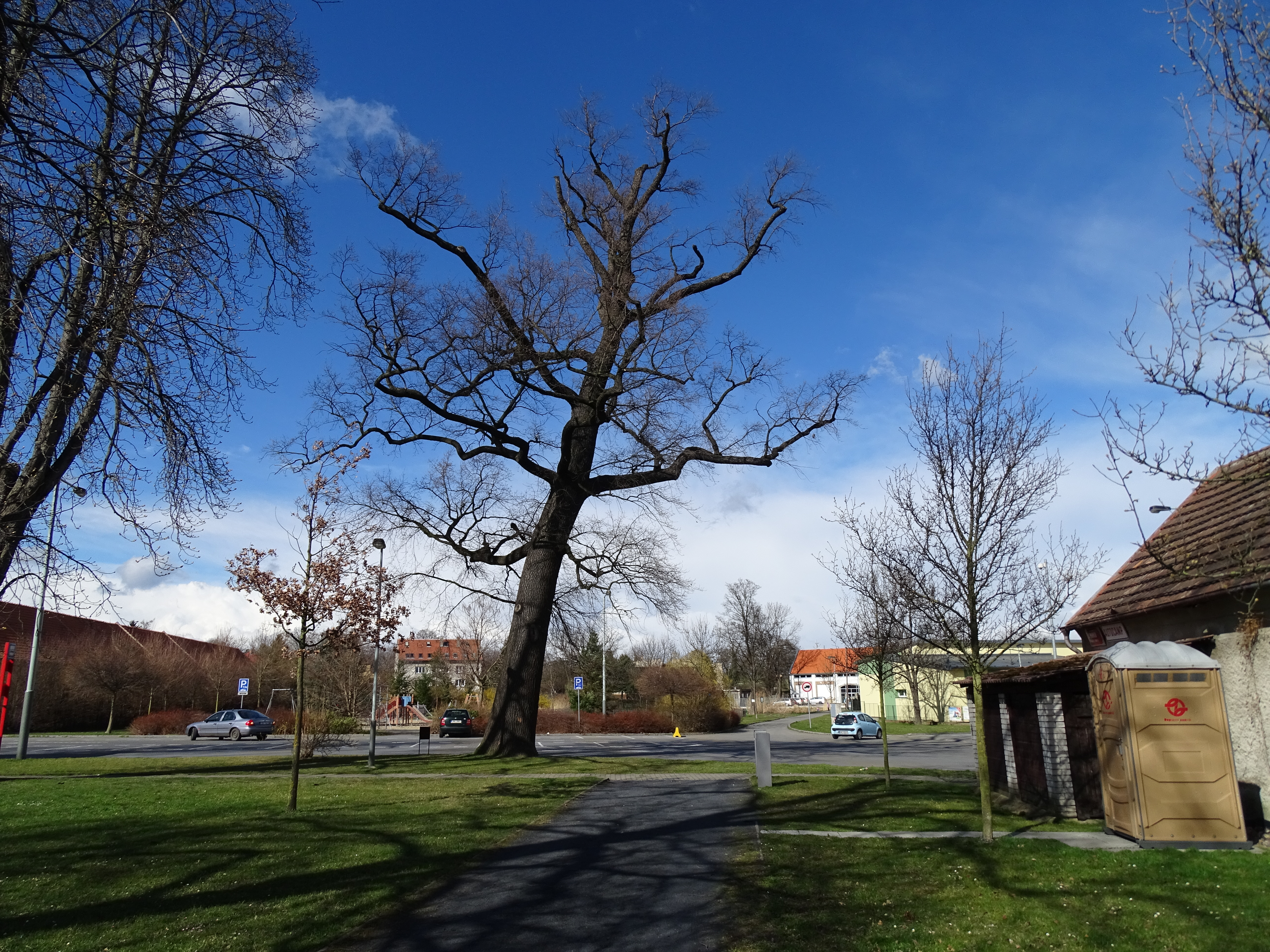 Prague-Březiněves, Czech Republic. A memorable oak in the park.